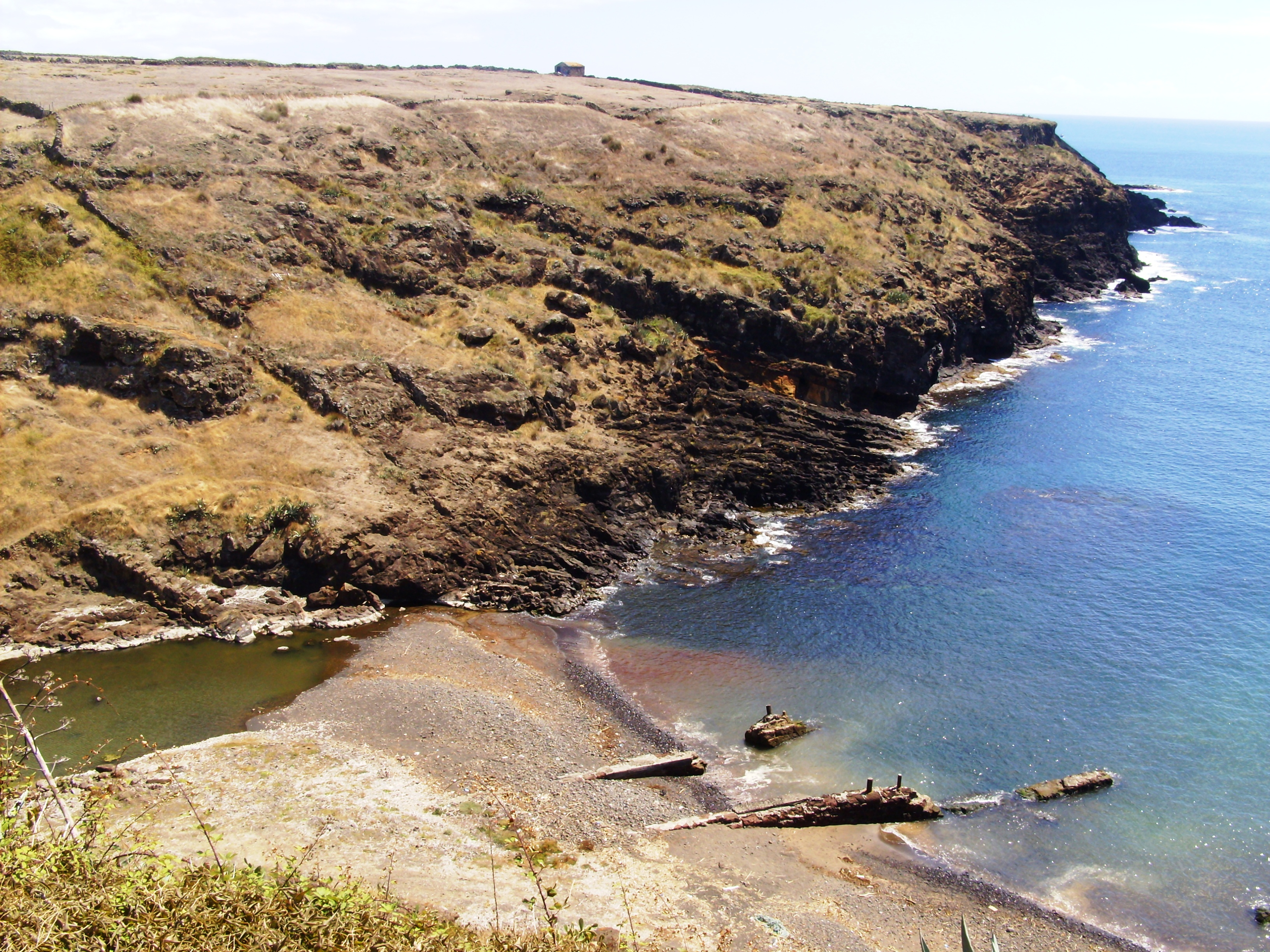 The early port and dock of Calhau da Roupa, in the shadow of the marina and port of Vila do Porto, island of Santa Maria, Azores (Portugal)